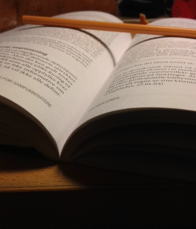 Picture of a Norwegian philosophy text book and a regular pencil.